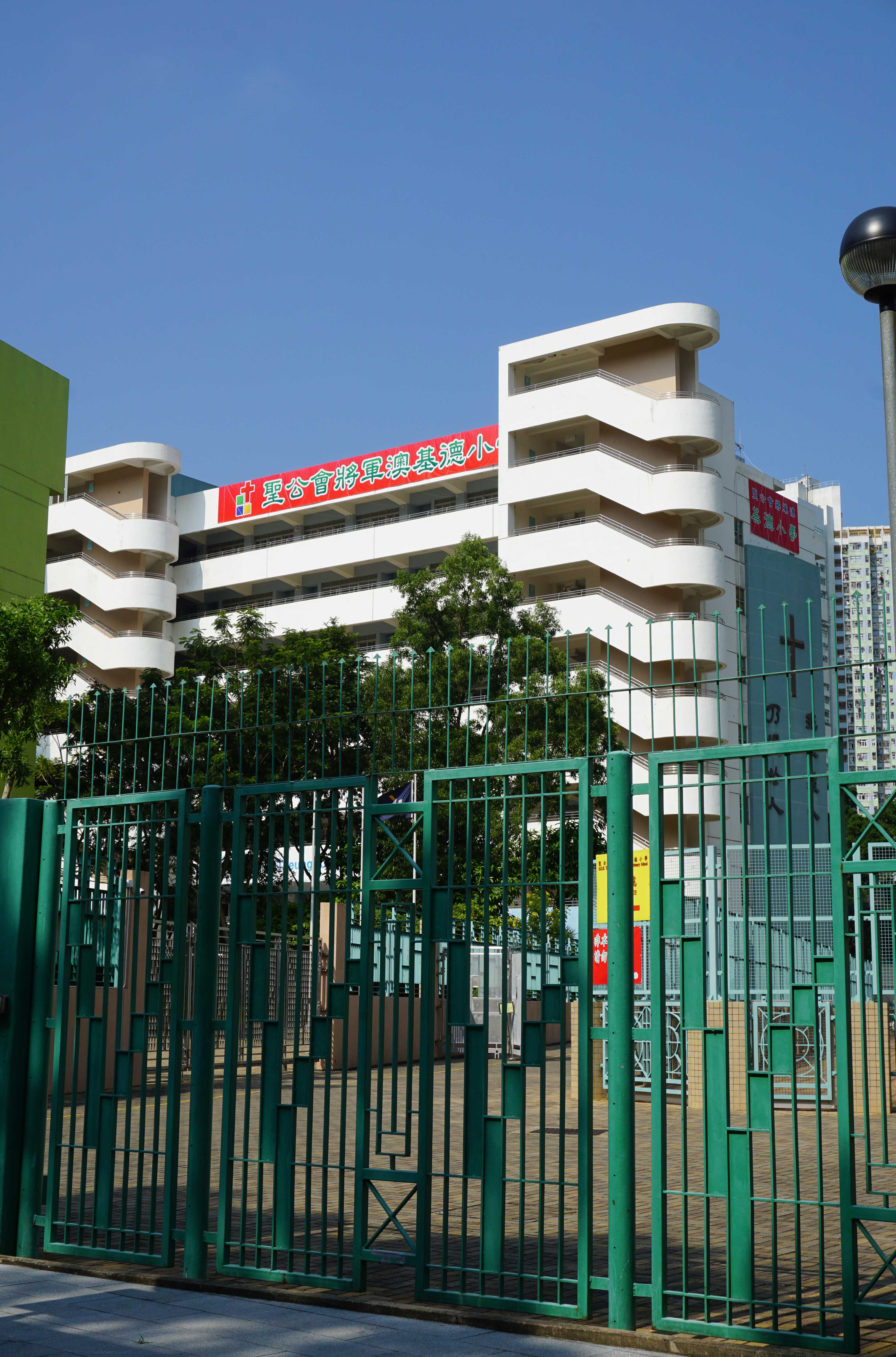 SKH Tseung Kwan O Kei Tak Primary School in Po Lam, Hong Kong.